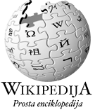 Logo of the Slovene Wikipedia